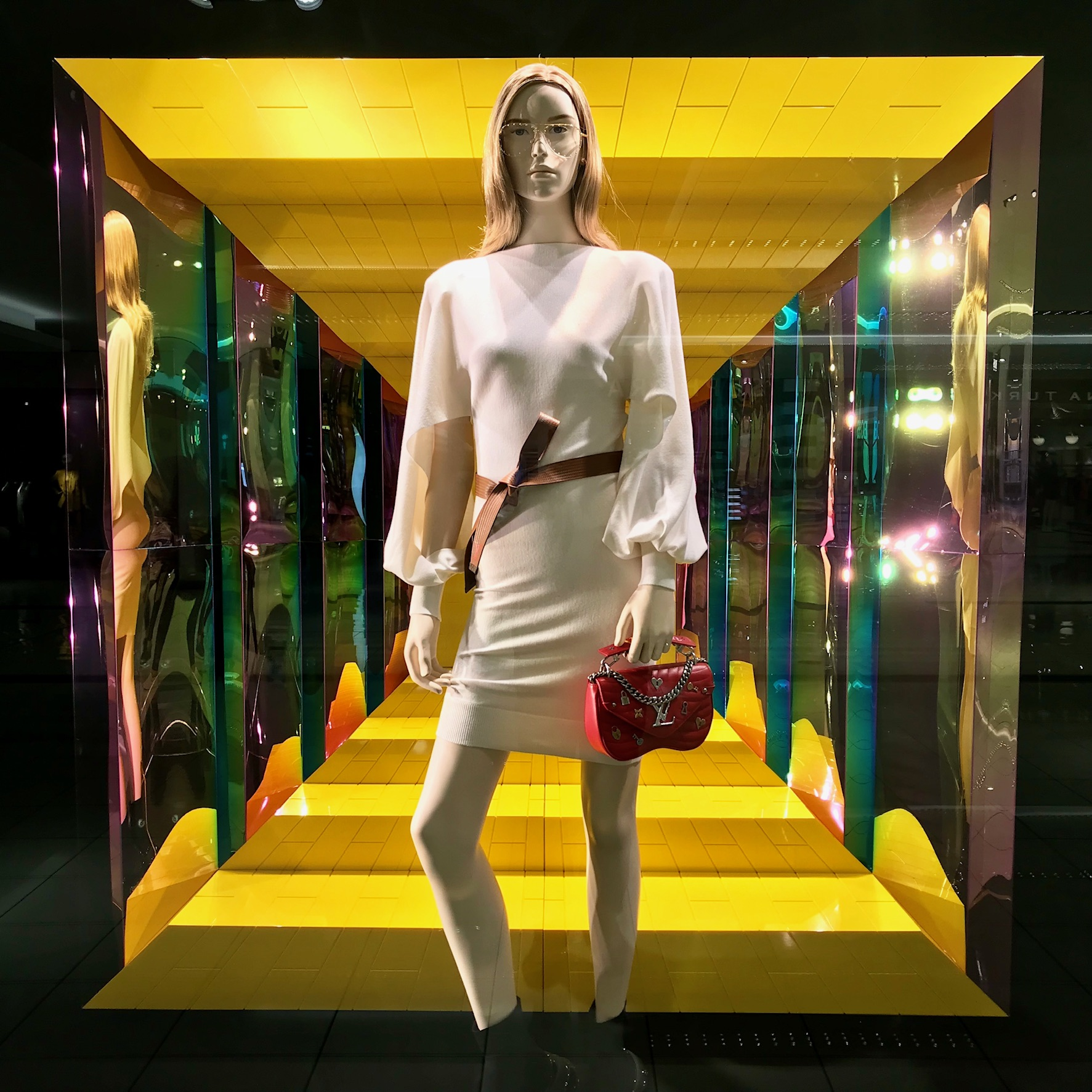 Louis vuitton shop window, Galleria, Houston